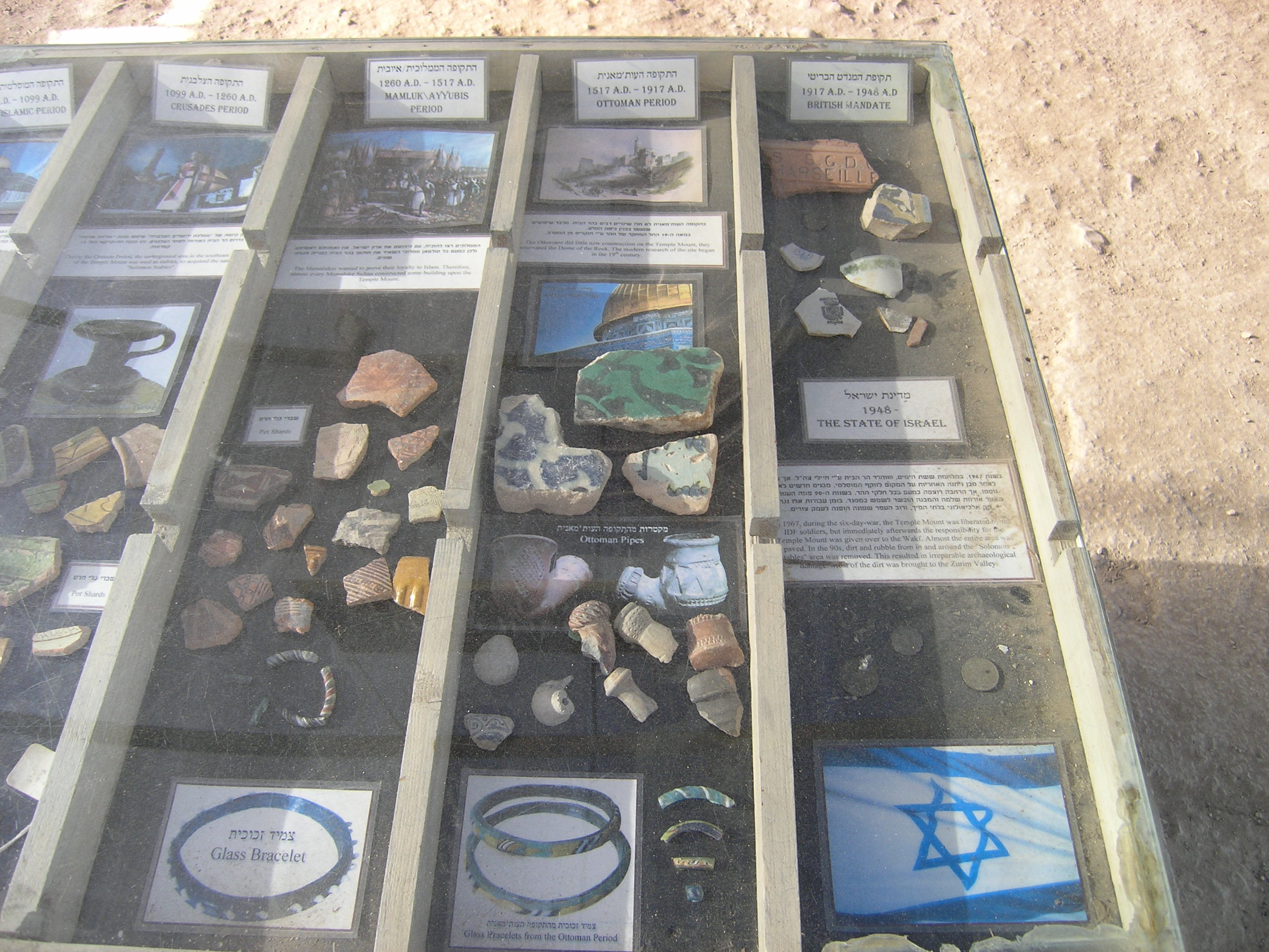 Temple Mount Sifting Project, Jerusalem, 2016, Display Table